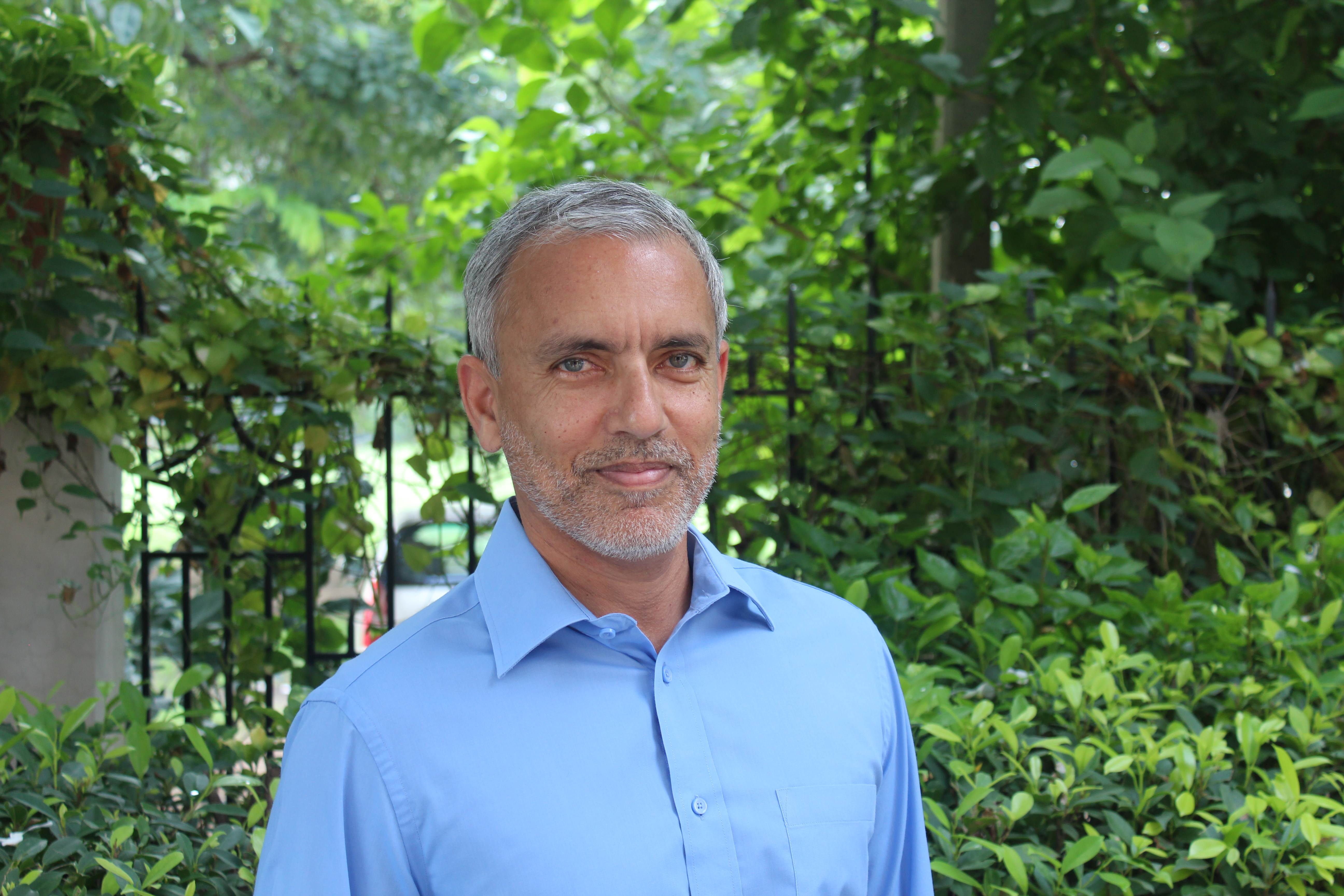 Rishi Narain in 2016